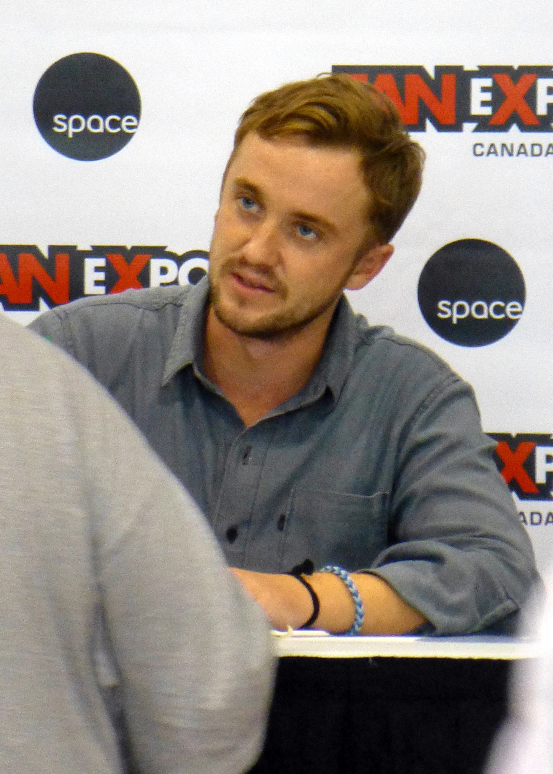 Fan Expo Canada in Toronto in 2015.